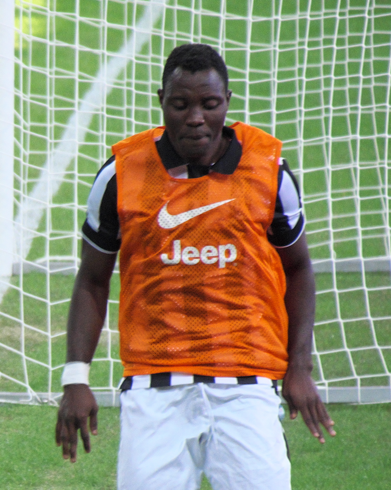 Kwadwo Asamoah playing in a pre-season friendly against Singapore in August 2014.